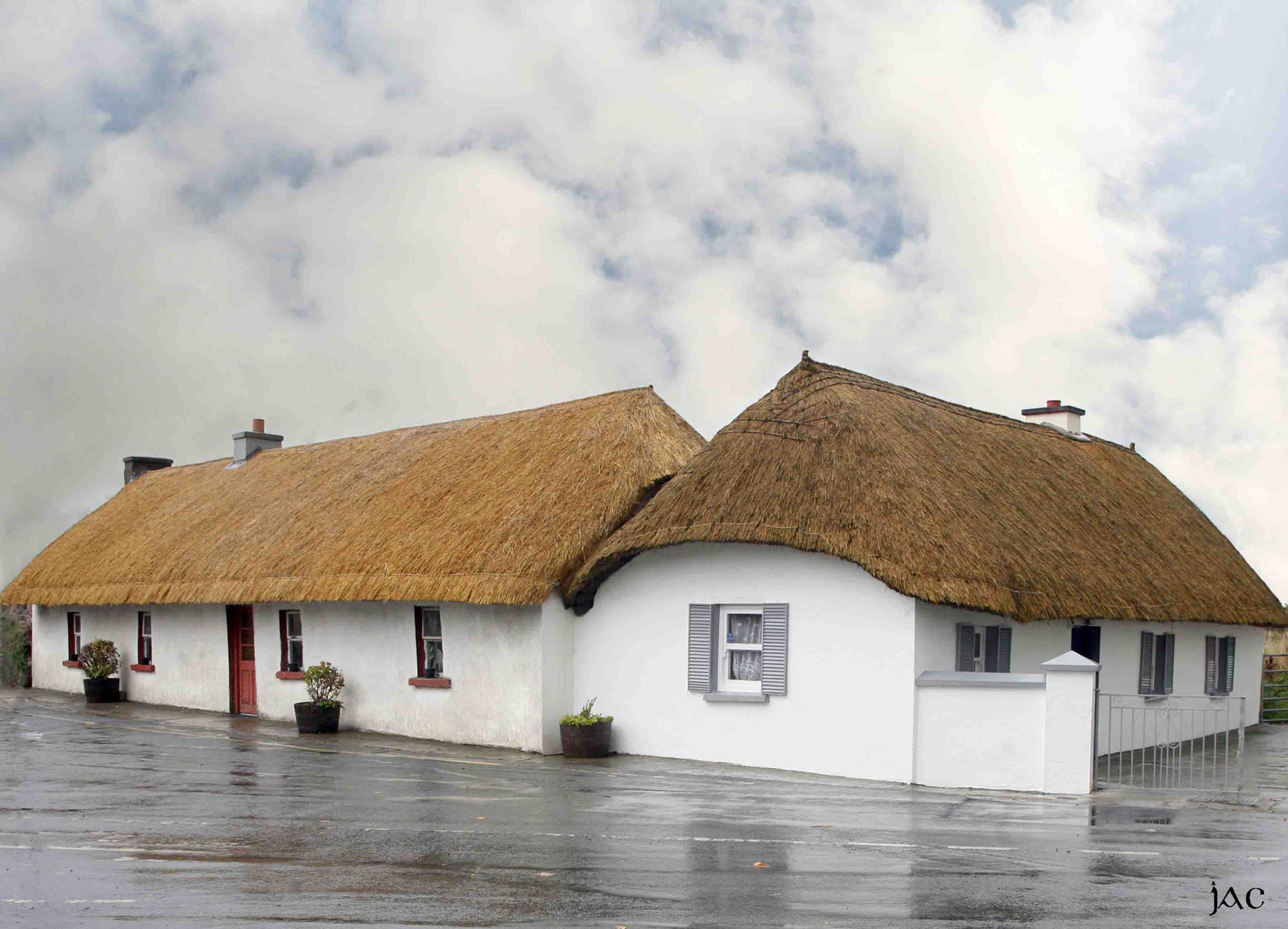 Clogh is a unique heritage village in North Kilkenny.Photograph by John Coffey Clogh.